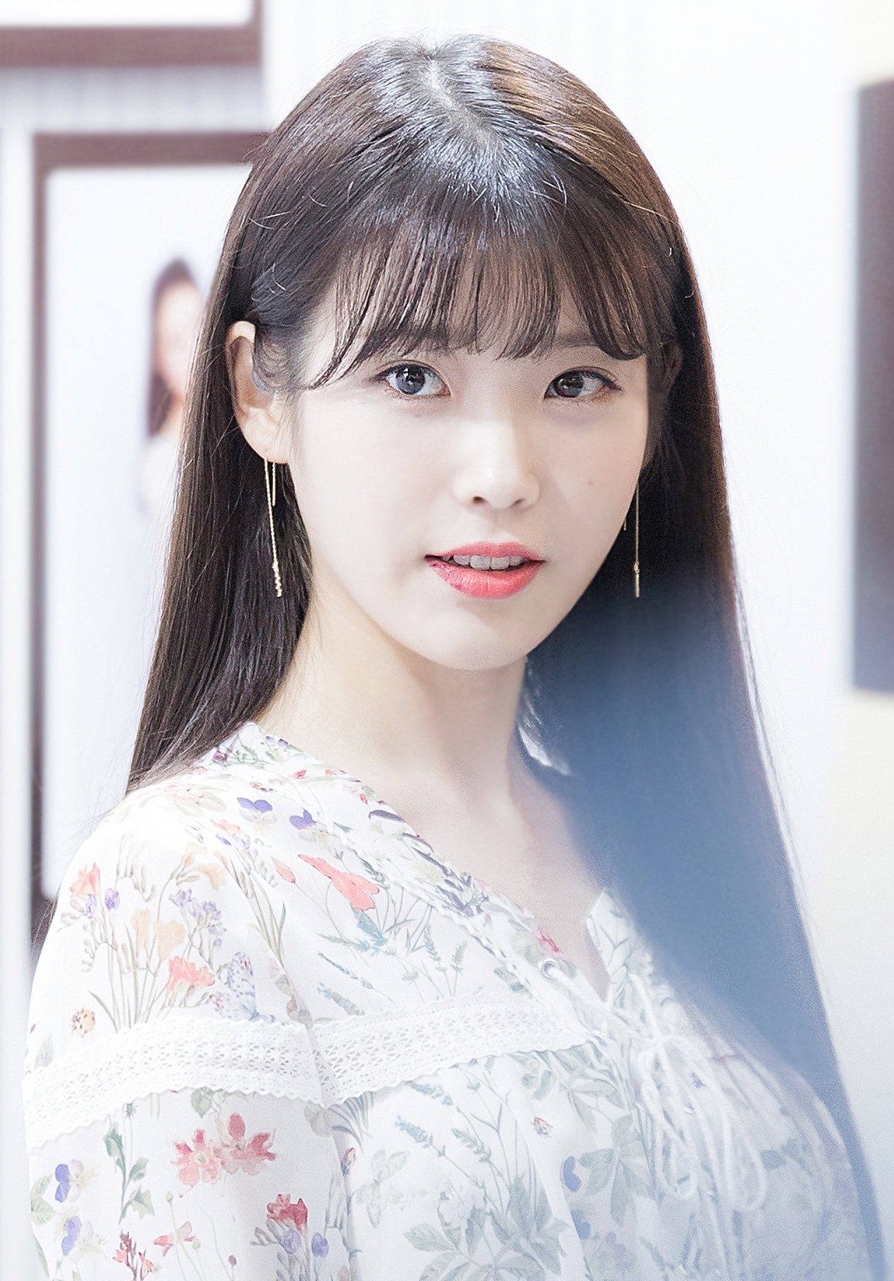 IU at a fansign for Sony SRS-ZR on July 25, 2016